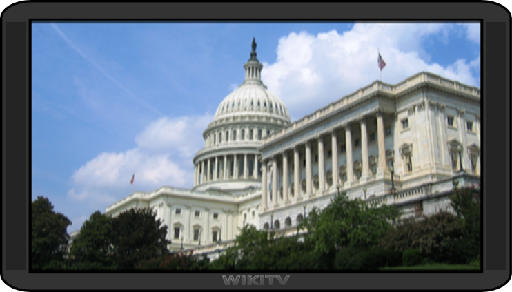 Aspect Ratio 16:9 zoomed